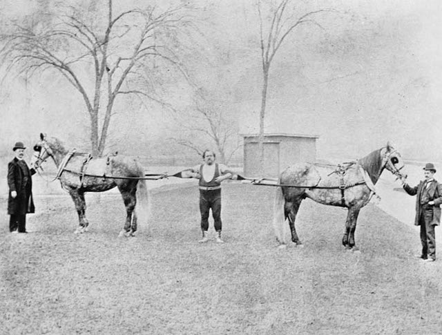 Louis Cyr - the famous strength athlete from Canada.